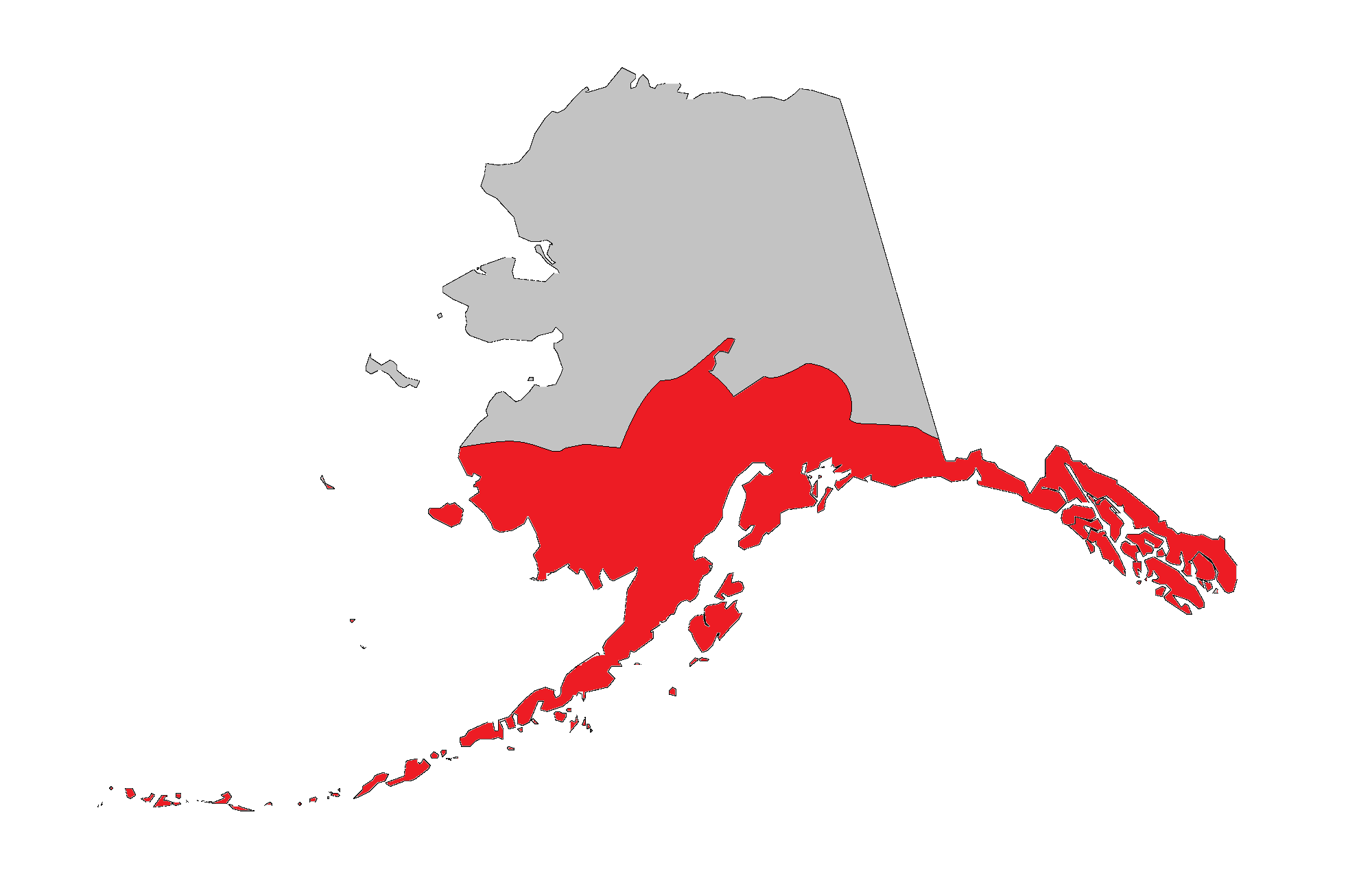 Southern District, Alaska (in red). A Census (statistical) area in the District of Alaska between 1880 and 1900. Based on "Map of boroughs and census" areas by cmrivers.